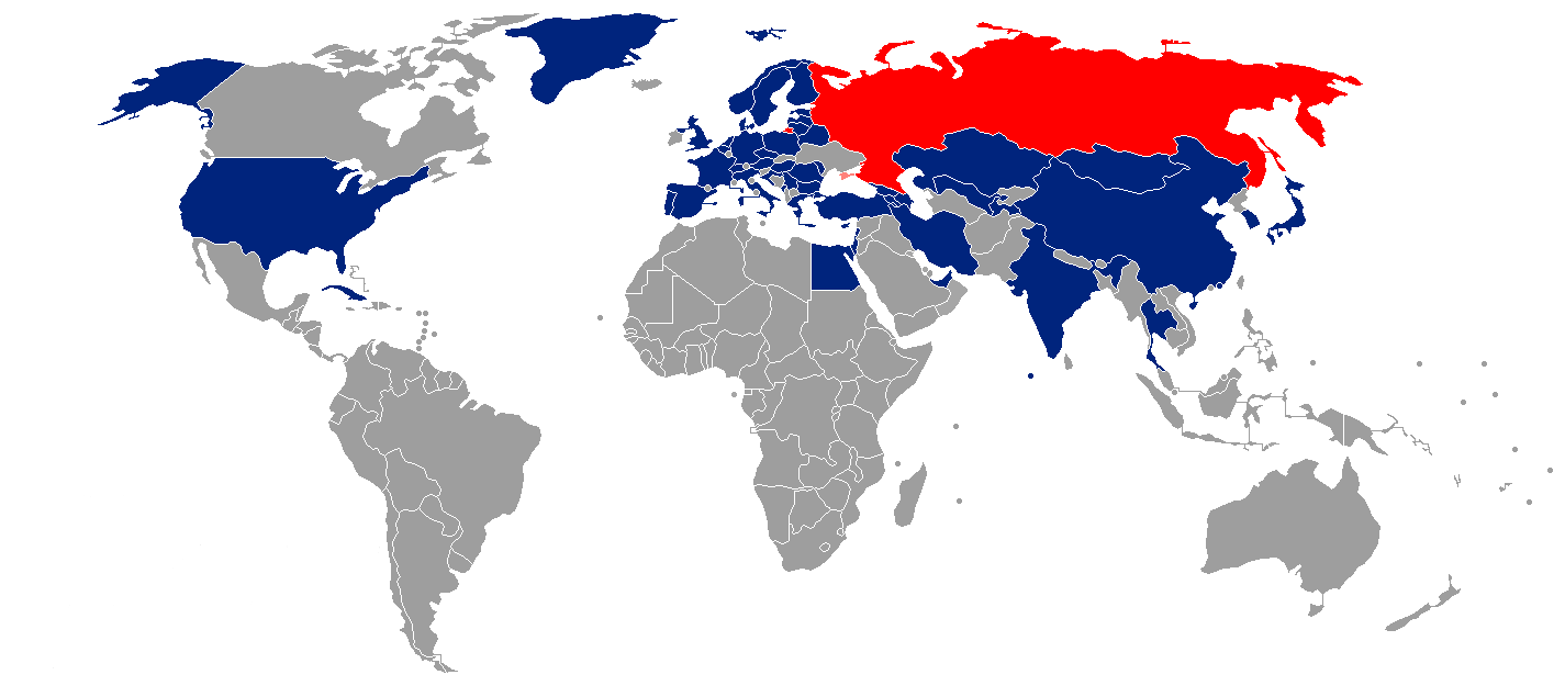 Aeroflot destinations